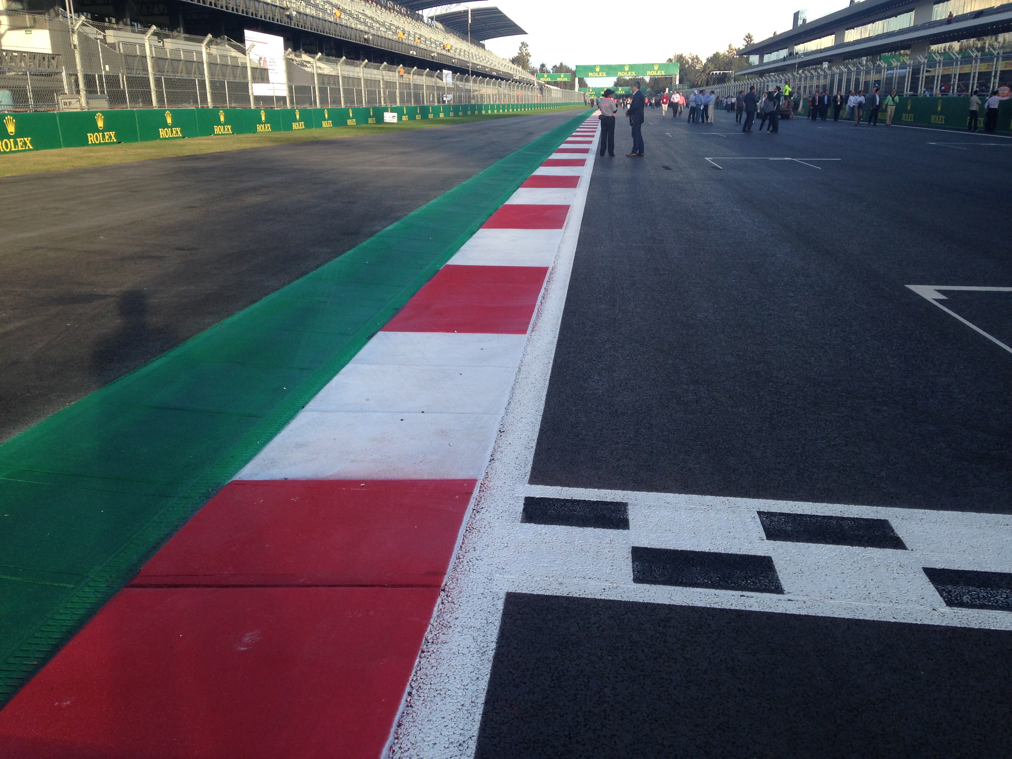 PitWalk Mexican Grand Prix 2015, Autódromo Hermanos Rodríguez. Mexico City, Mexico.